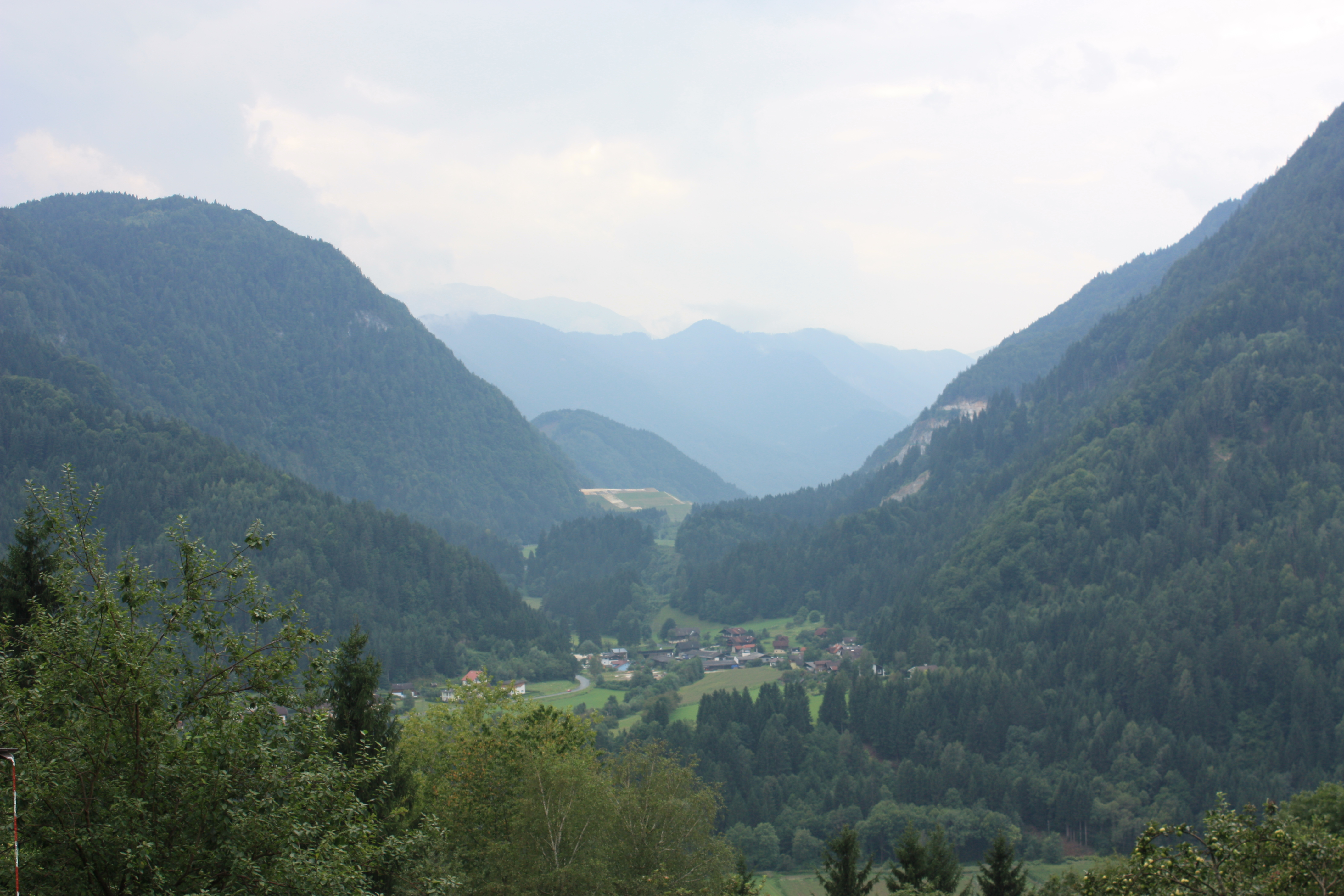 View from Winklern to Krastal